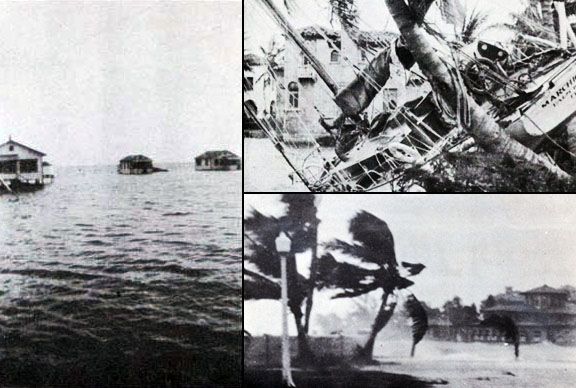 A montage the 1928 Okeechobee Hurricane